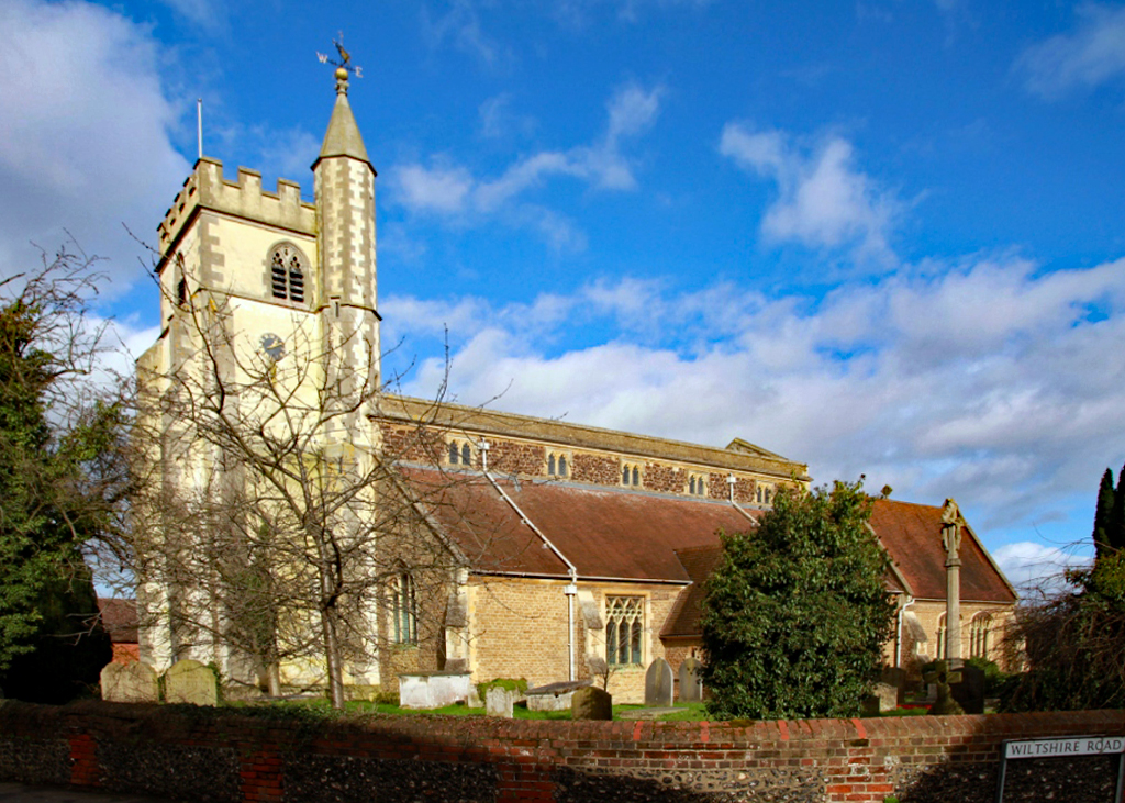 Church of England parish church of All Saints, Wokingham, Berkshire: view from the southwest